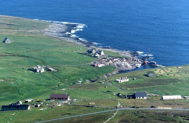 Ham, Foula, Shetland Islands. The main settlement on the island. The breakwater at Ham Voe is under construction.